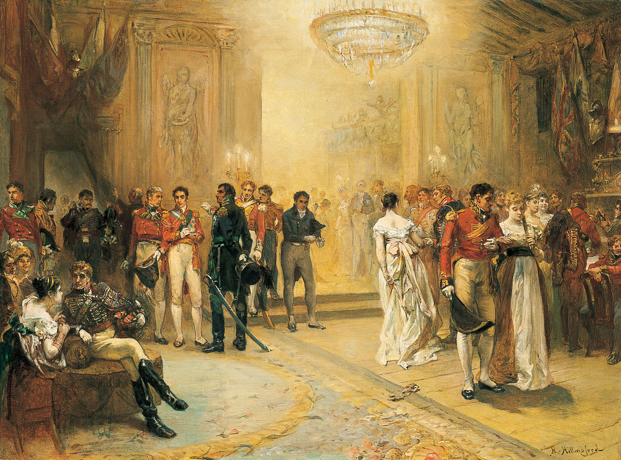 "The Duchess of Richmond's Ball, by Robert Hillingford, 1870s, oil on canvas, 44 x 60 cm 17½ 23½ in." (Rosemary Baird Goodwood: Art and Architecture, Sport and Family p. 157)